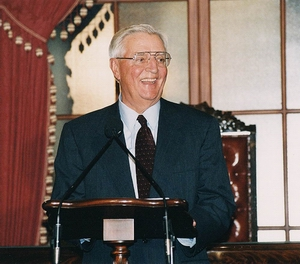 Former Vice President Walter Mondale giving a speech to Senate in September 2002